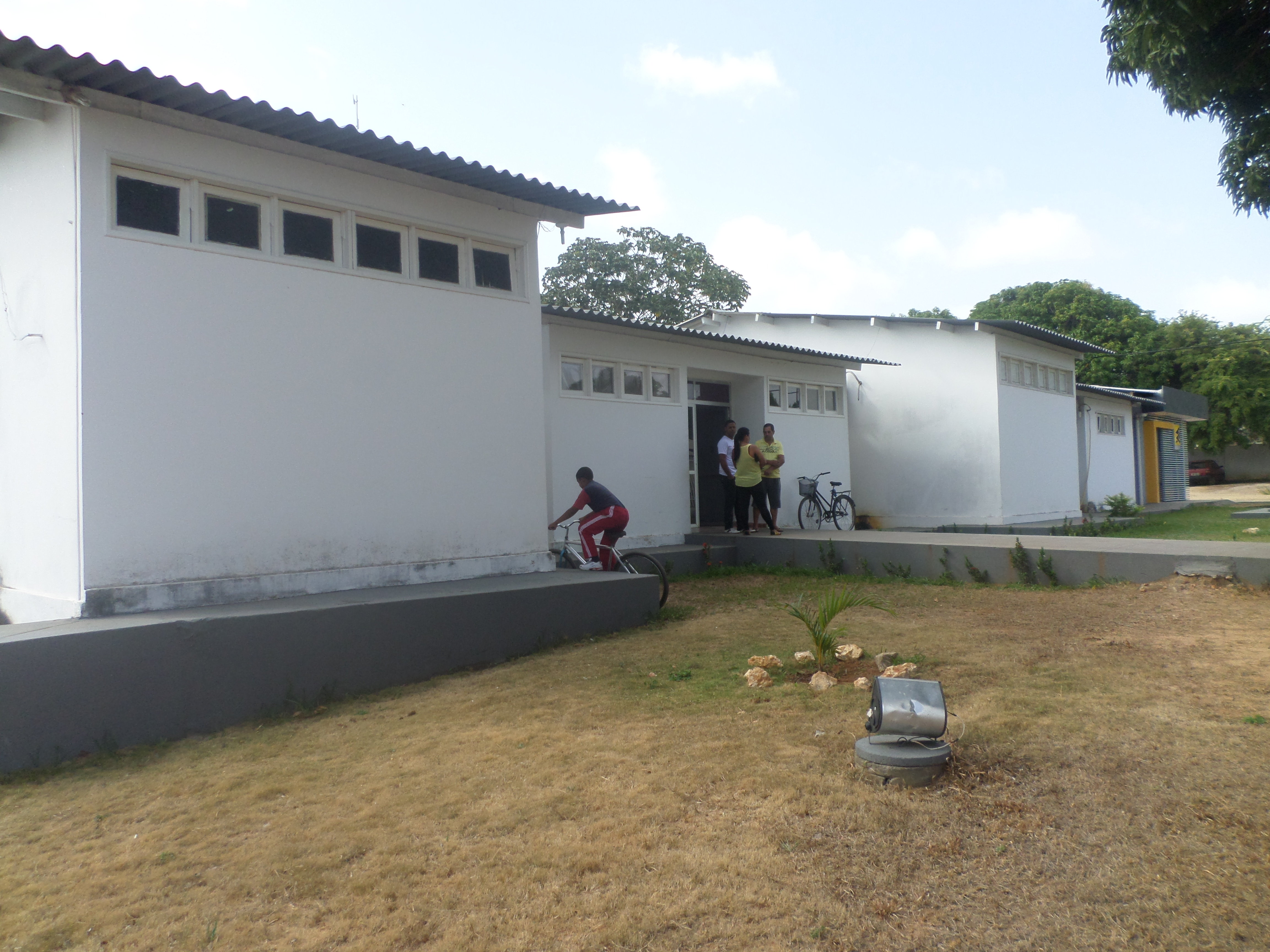 Prefeitura Municipal de Bonfim